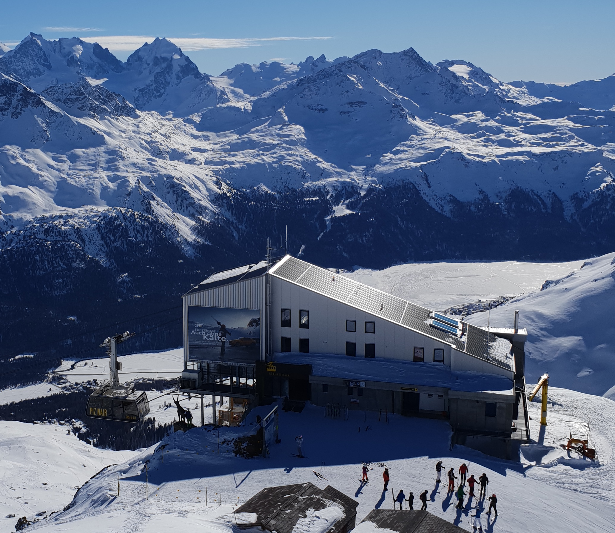 Summit station on Piz Nair (St. Moritz - Celerina/Schlarigna, Grison, Switzerland)